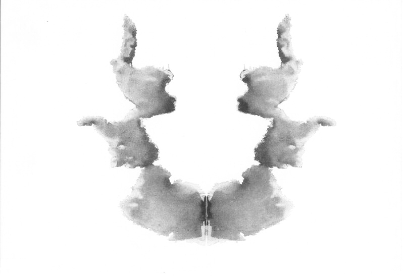 the seventh blot of the Rorschach inkblot test